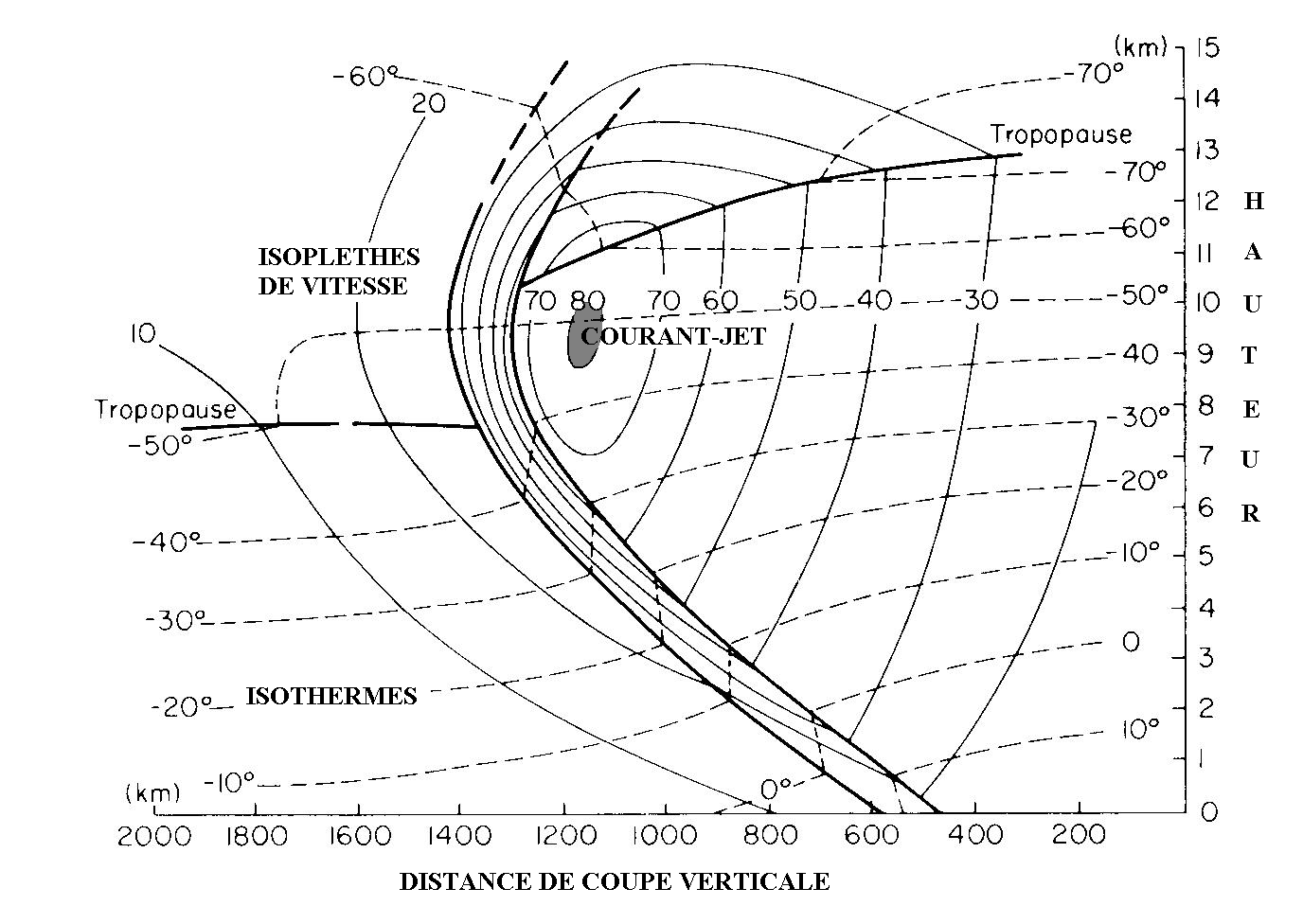 A cross-section view of a jet stream at a frontal boundary where it can be seen that the wind speed increased above the maximum of change in temperature and then decreased once the tropopause is reached as the gradient of temperature inverse.